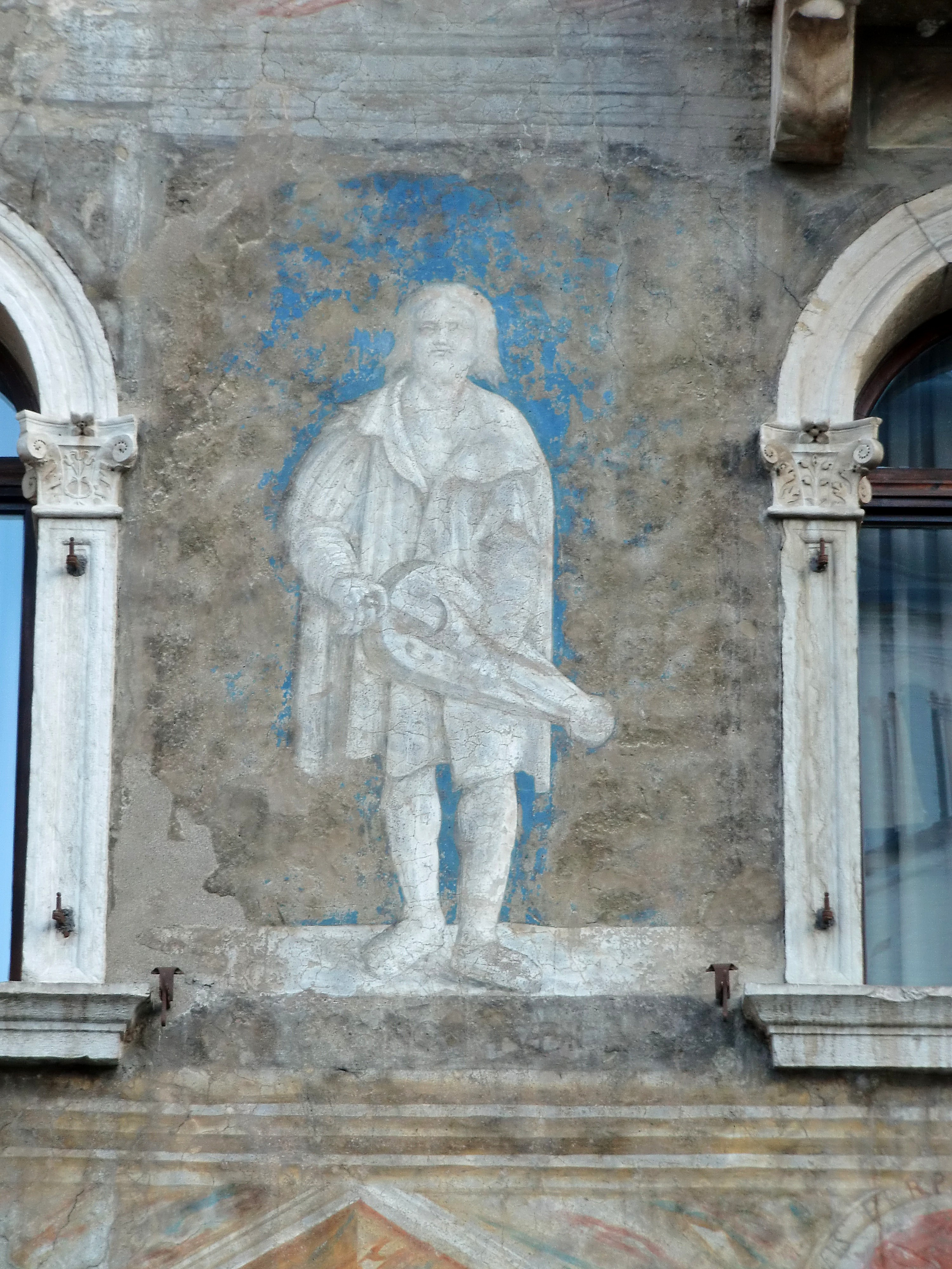 Cazuffi-Rella houses, Trento; detail of the frescoes on the facade, Hurdy Gurdy player